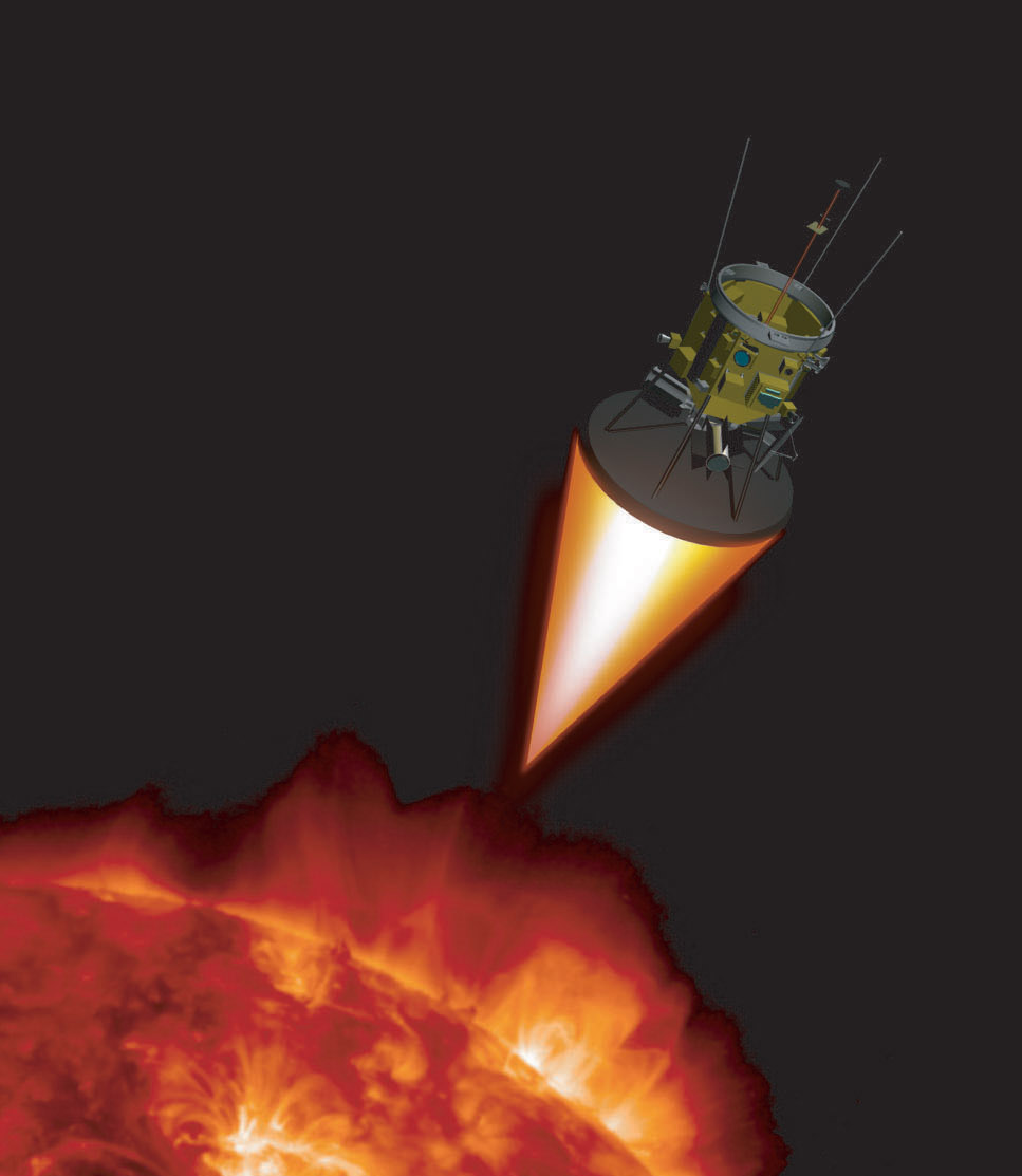 Early artist impression of Solar Probe with conical heatshield and RTGs